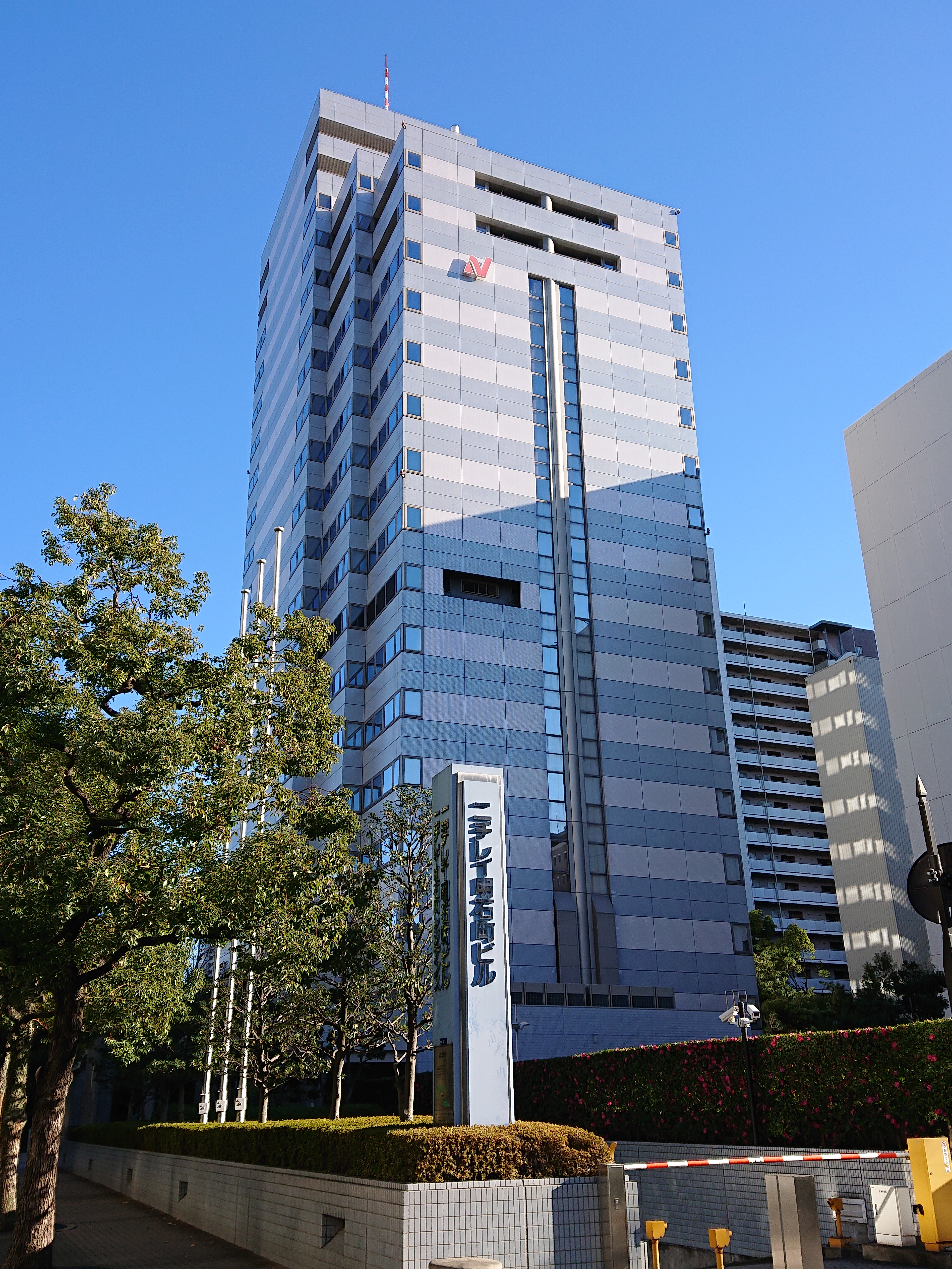 Nichirei Akashicho Building (ニチレイ明石町ビル), located at 6-4 Akashicho, Chuo, Tokyo, Japan